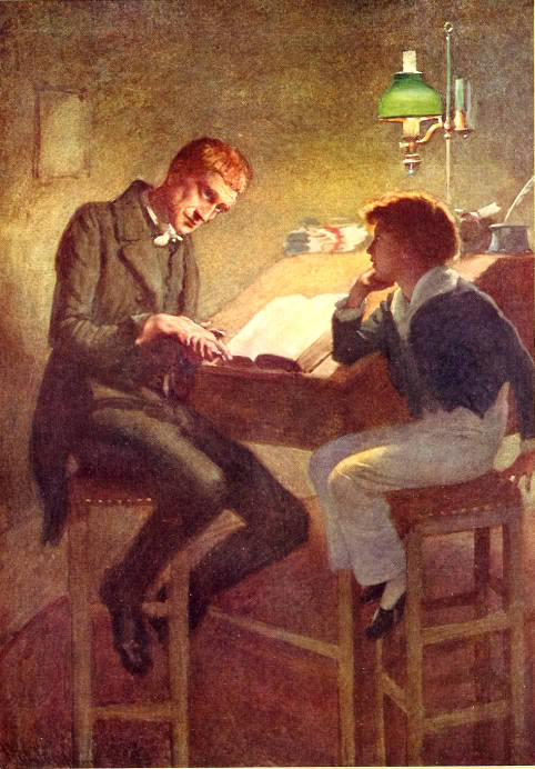 Uriah Heep and David (Harold Copping)